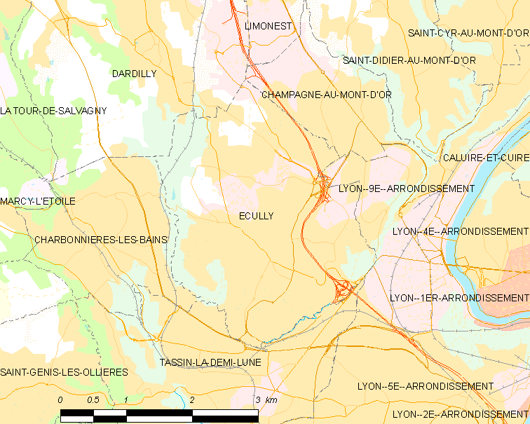 Map of French municipality